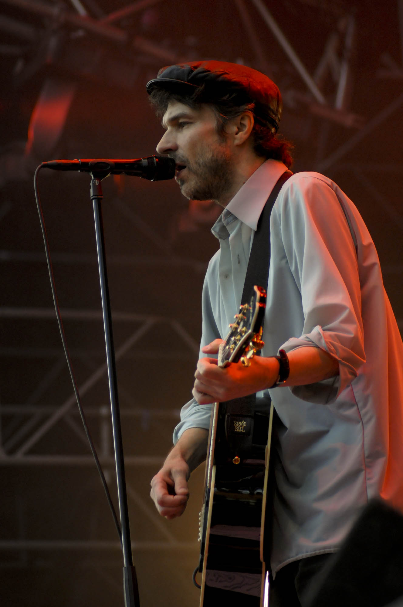 Joakim Thåström performing 27 june 2008